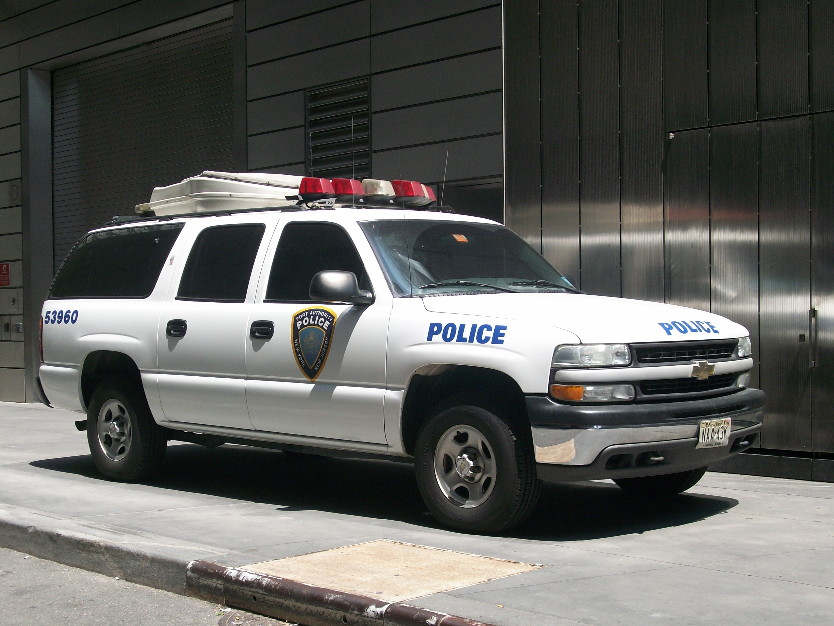 A Chevrolet GMT921 of Port Authority New York New Jersey